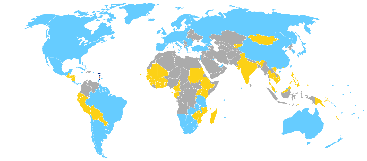 Visa policy of Saint Lucia Saint Lusia Freedom of movement Visa-free entry Visa on arrival Visa required